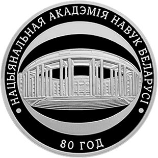 Belarus and the global community. Commemorative coins "Natsyyanalnaya akademіya Navuka Belarus. 1980" (National Academy of Sciences of Belarus. 80 years)